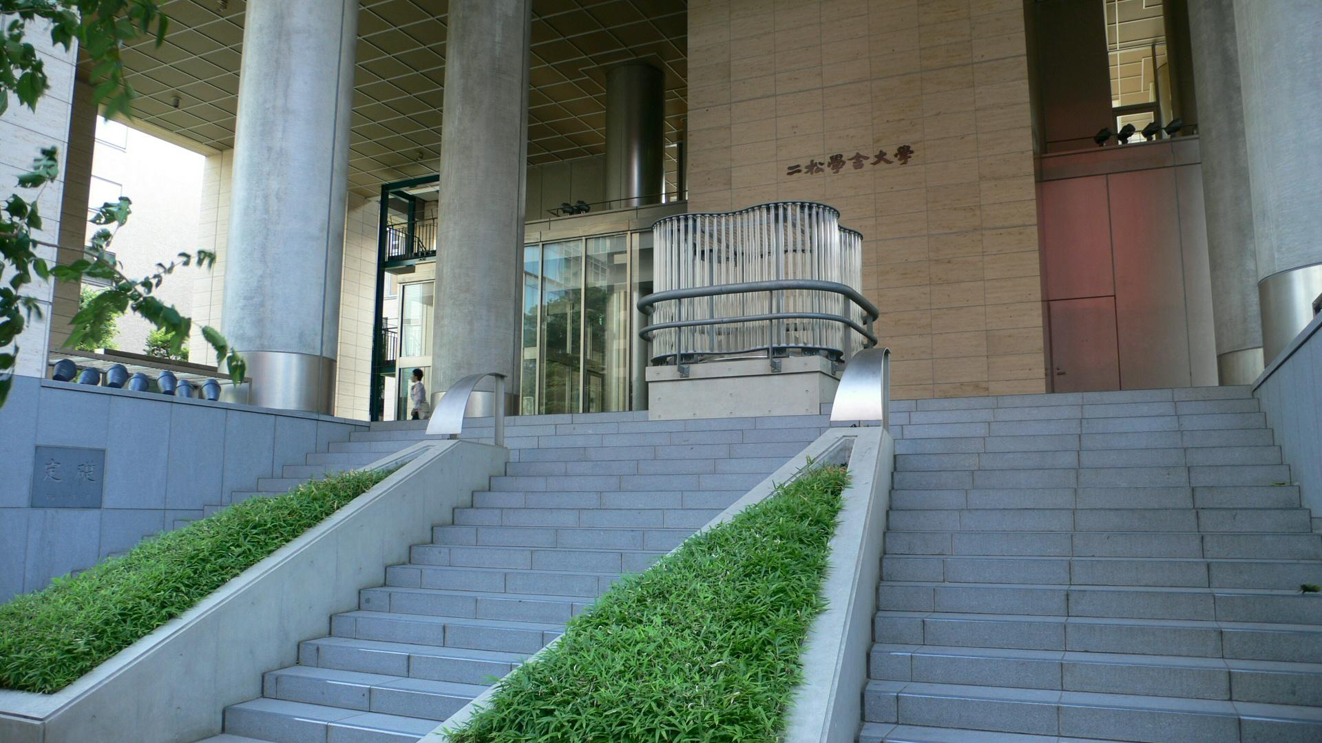 Nishogakusha_University,Kudan_campus -July.30.2006